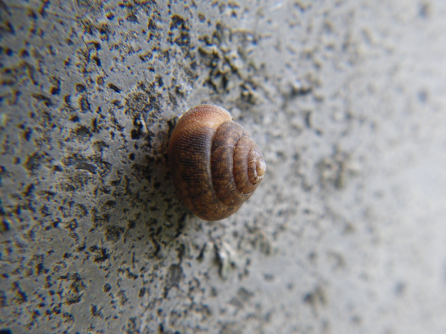 Lepidopisum conospira (Pfeiffer, 1851) (syn. Lepidopisum verrucosum (Reinhardt, 1877), about 6mm in diameter, resting on the concrete wall. Loc. Sagamihara, Honshu, Japan.